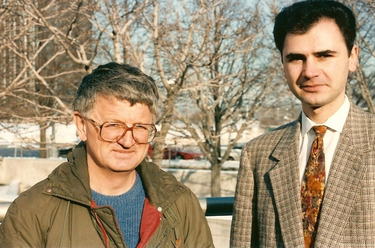 Steve Tesich and Dejan Stojanovic in front of the Goodman Theatre in Chicago. Photograph taken during the Stojanovic's interview with Tesich.